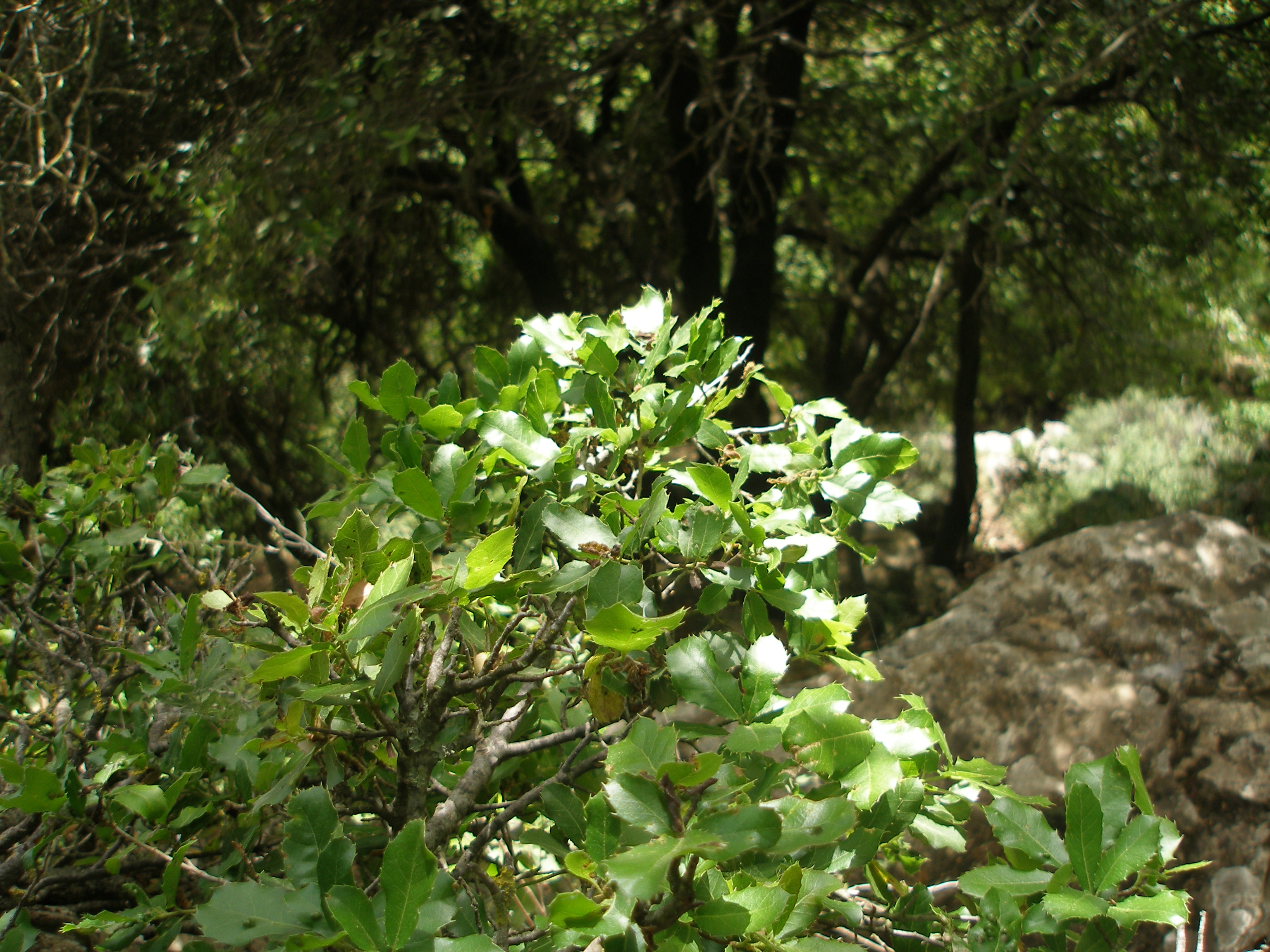 Mediterranean forests, the Upper Galilee